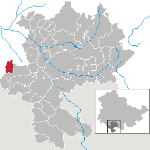 Westenfeld in Thuringia - district Hildburghausen